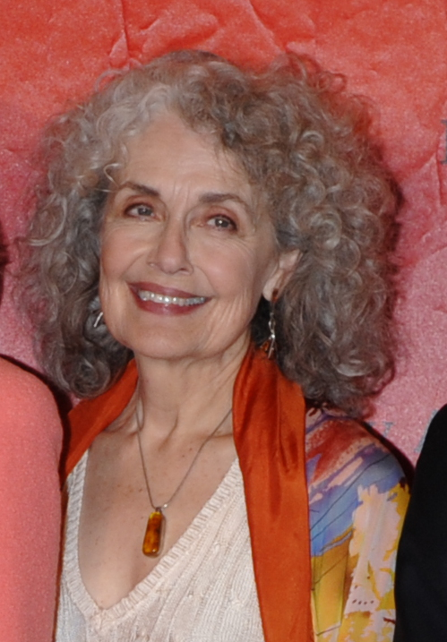 PHOTO CREDIT: ANDERS KRUSBERG / PEABODY AWARDS 70th Annual Peabody Awards Luncheon Waldorf=Astoria Hotel May 23, 2011